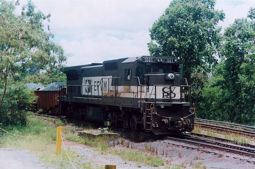 Locomotive EFVM BB40-8M #1001 loading a 80 iron ore cars at Caue mine. Itabira, MG - BR